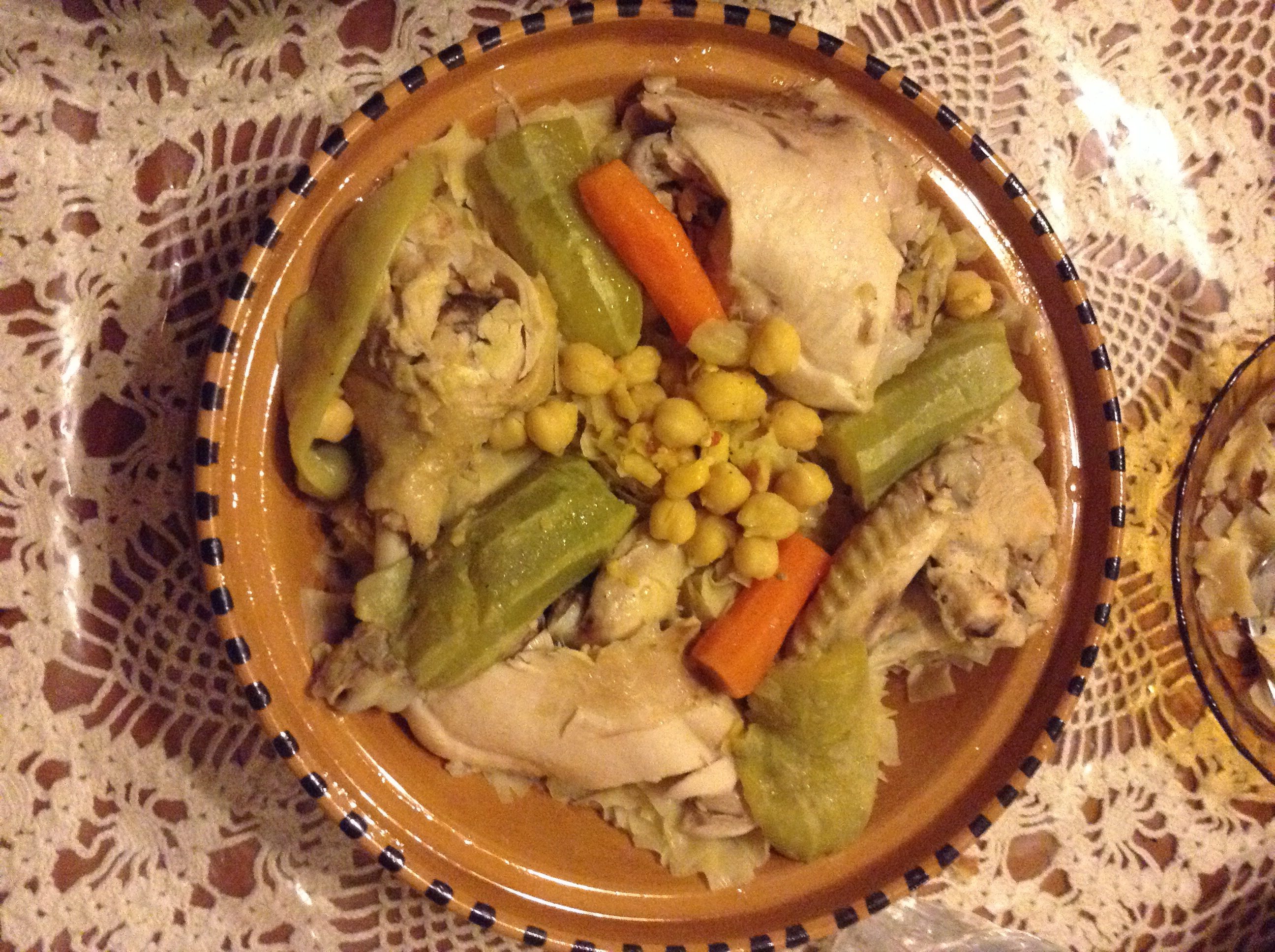 Whole wheat pasta cooked with chicken and vegetables. Culinary specialty of eastern Algeria. This is an image of food from Algeria